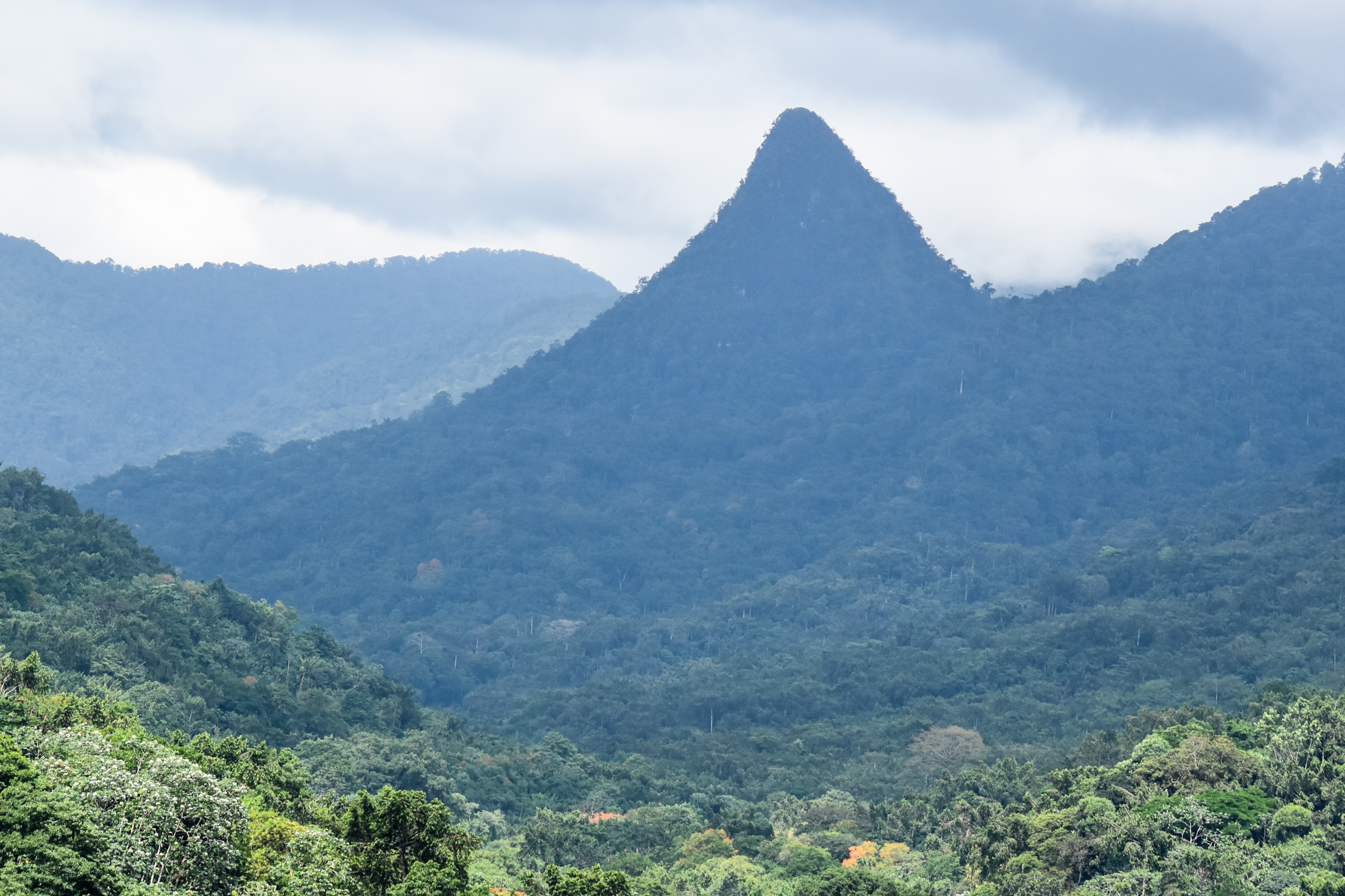 Typical landscape of the park in Caué district